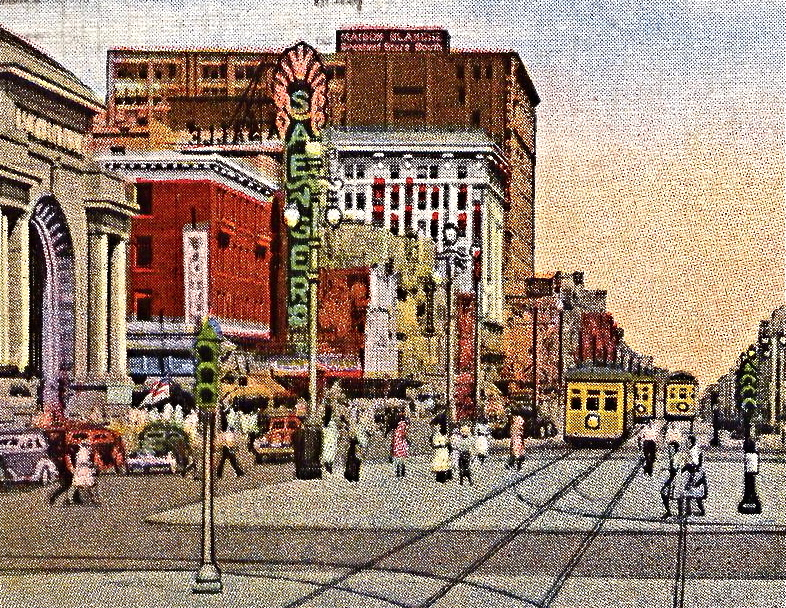 New Orleans: Postcard view of Canal Street showing fascade and marquee of the Saenger Theatre, a bit before the middle of the 20th century.